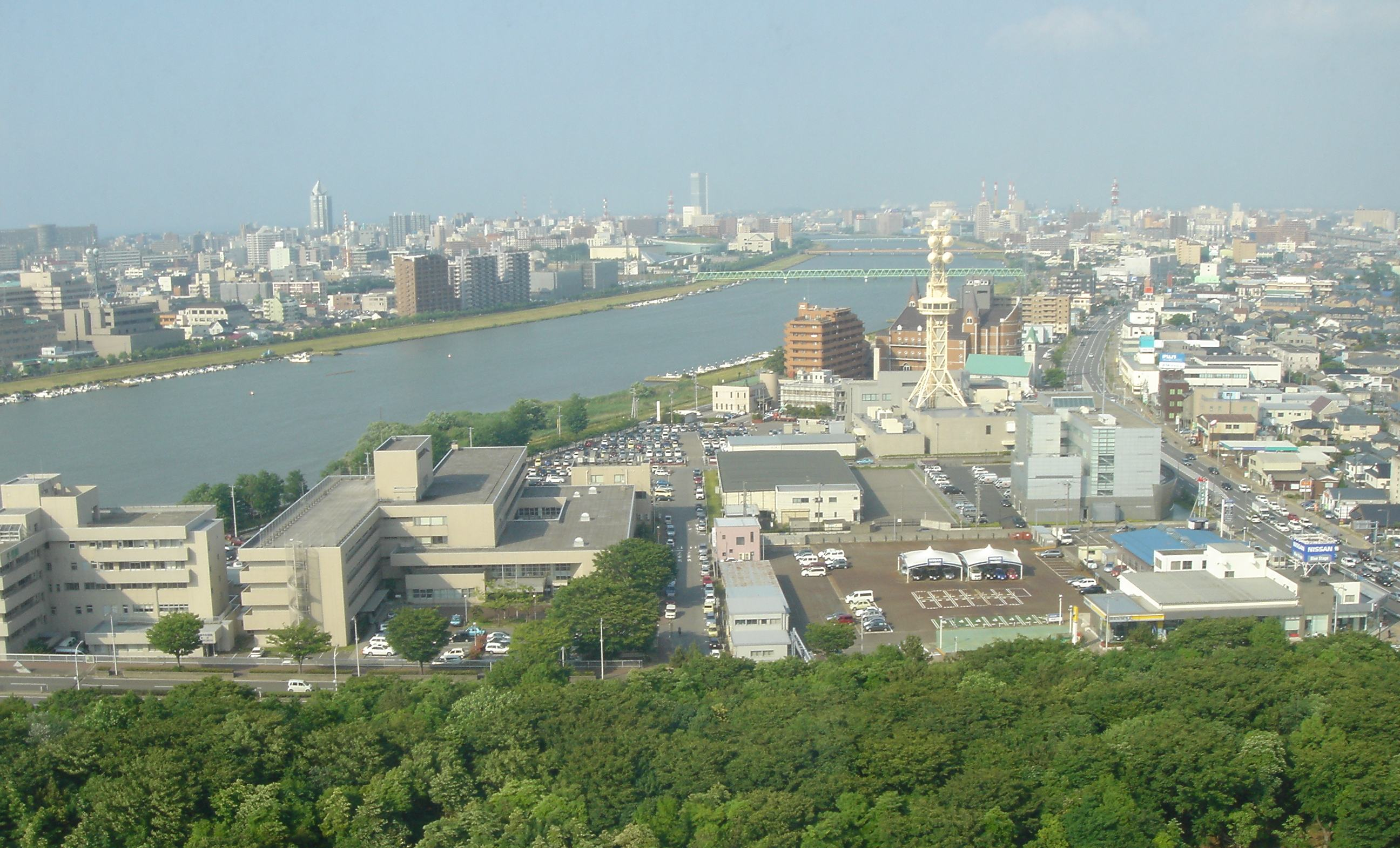 View from the Niigata Prefecture Building public top floor viewing area